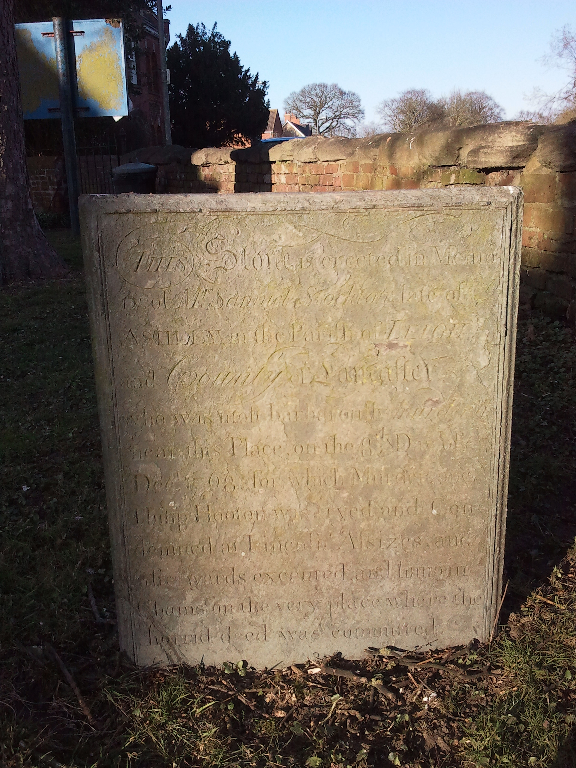 Samuel Stockton's grave in Surfleet's church. Memorial to a man murdered here in 1768, and the subsequent gibbeting of the felon.